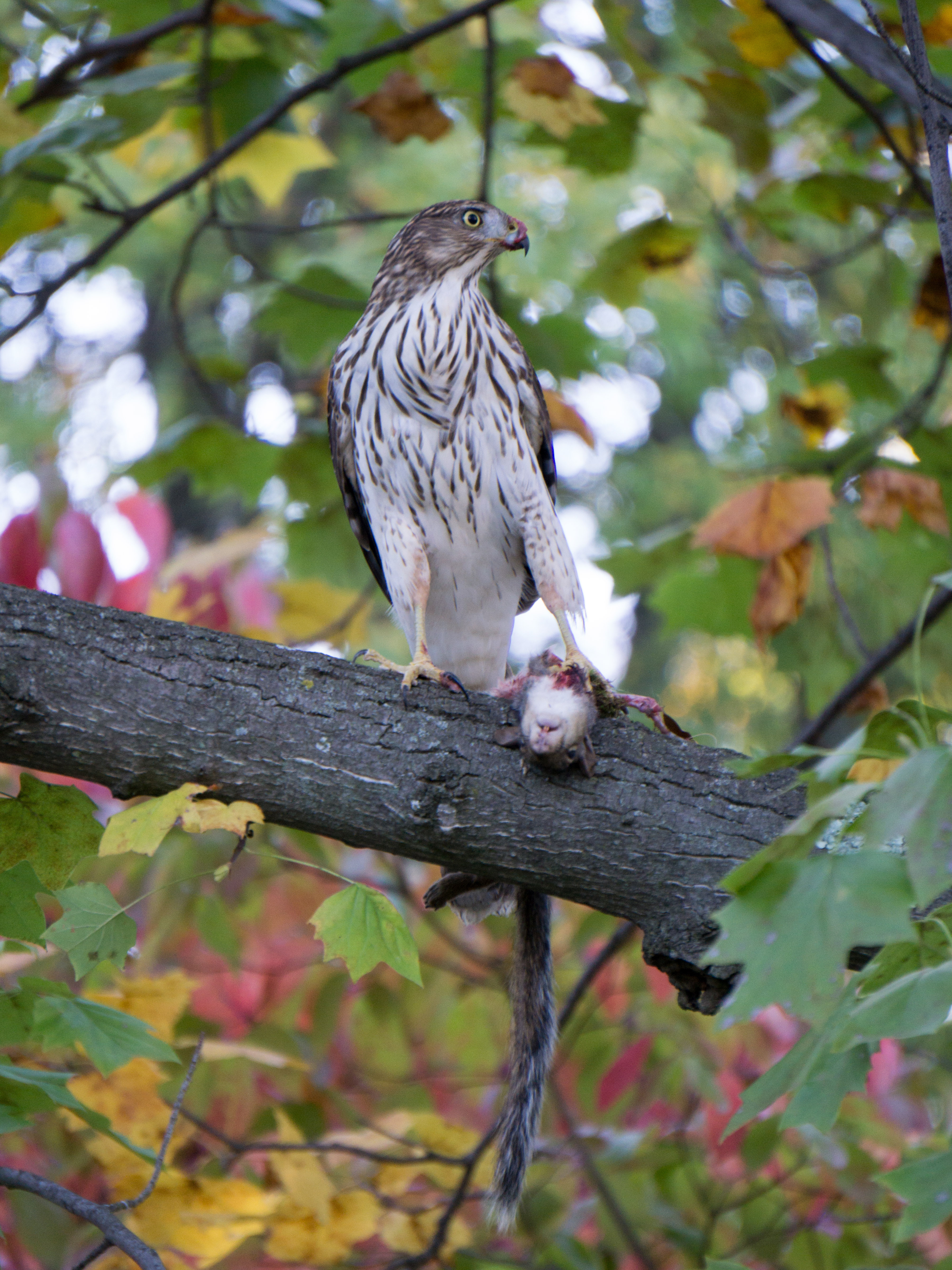 This image was uploaded as part of Wiki Science Competition 2017.